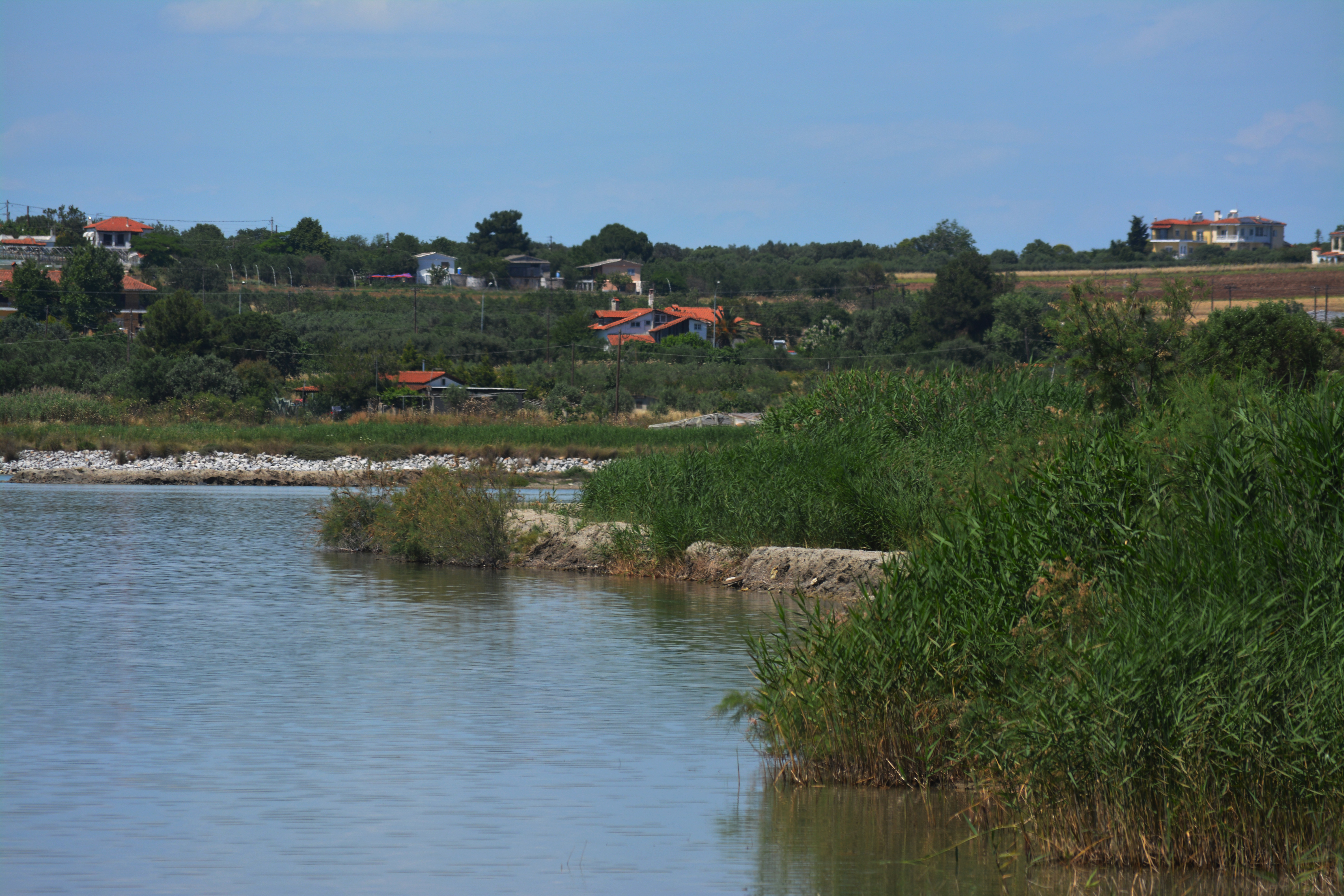 This is a photography of Natura 2000 protected area with ID GR1220005